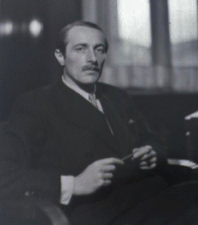 A photograph of a Czech aristocrat and Minister of Agriculture of the government of Alois Eliáš.